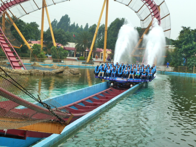 Dive Coaster at Chimelong paradise in Gaungzhou, China